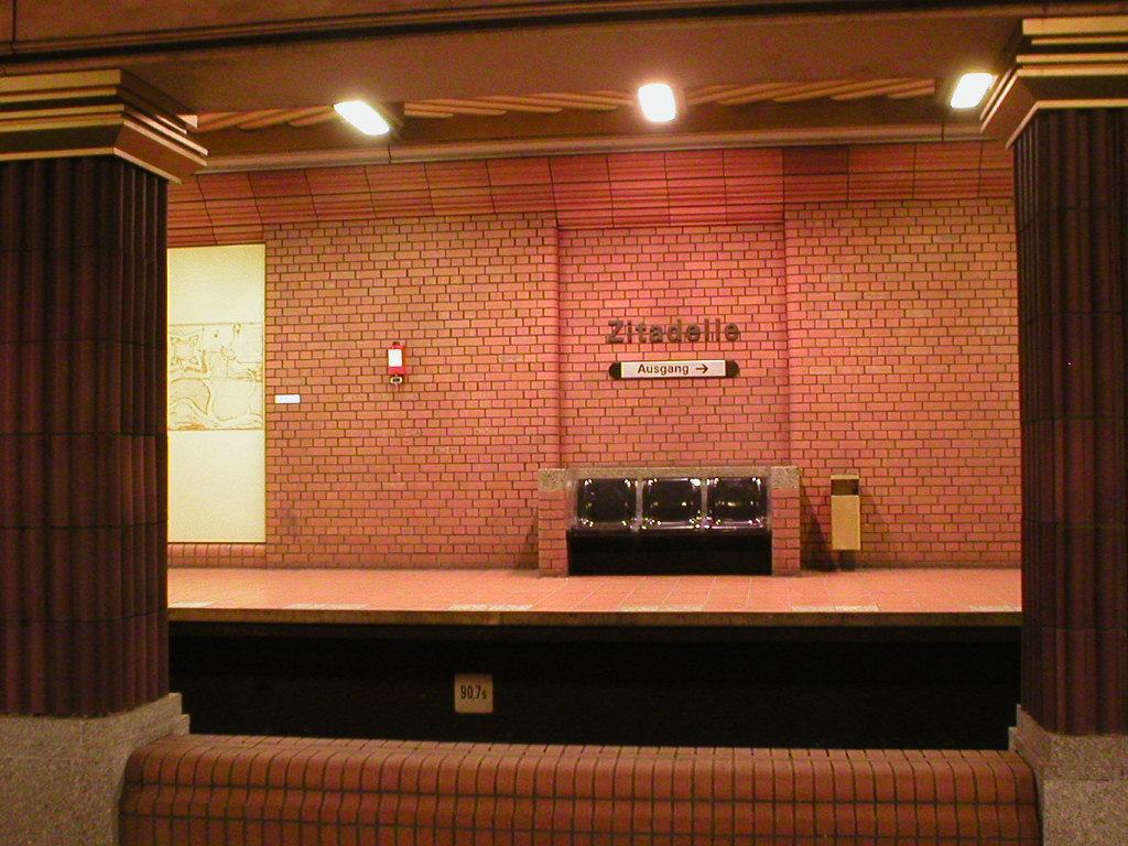 The U-Bahnstation Zitadelle, line U7, in Berlin, Germany